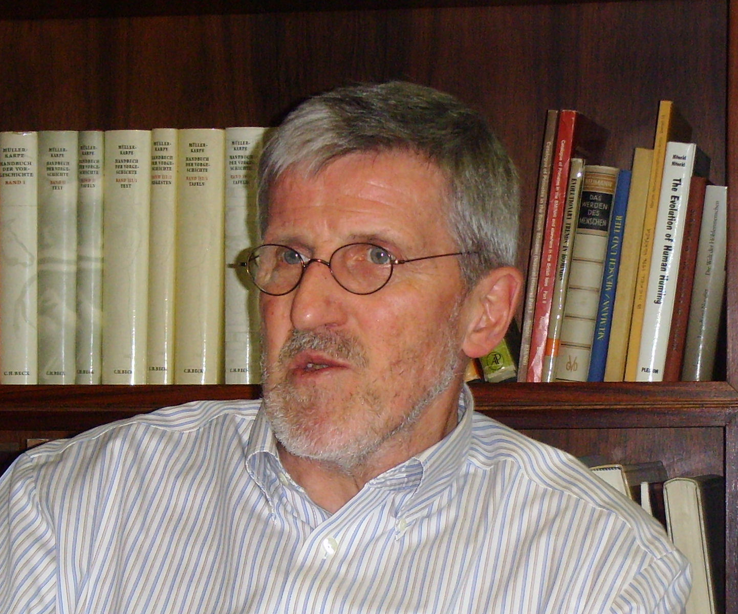 Prof. Bernard Anthony Wood, George Washington University